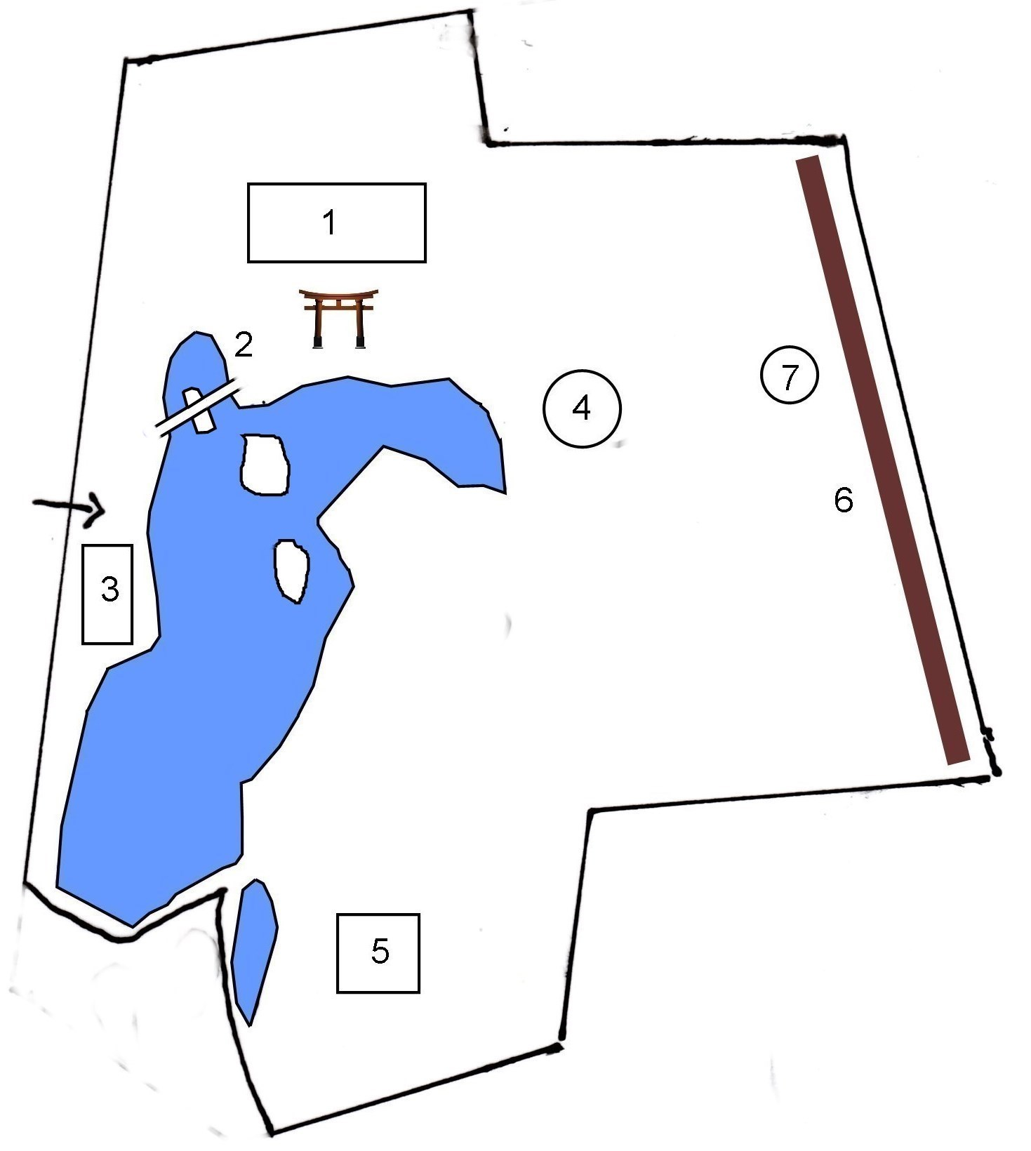 Suizenji-Parkt at Kumamoto, Japan